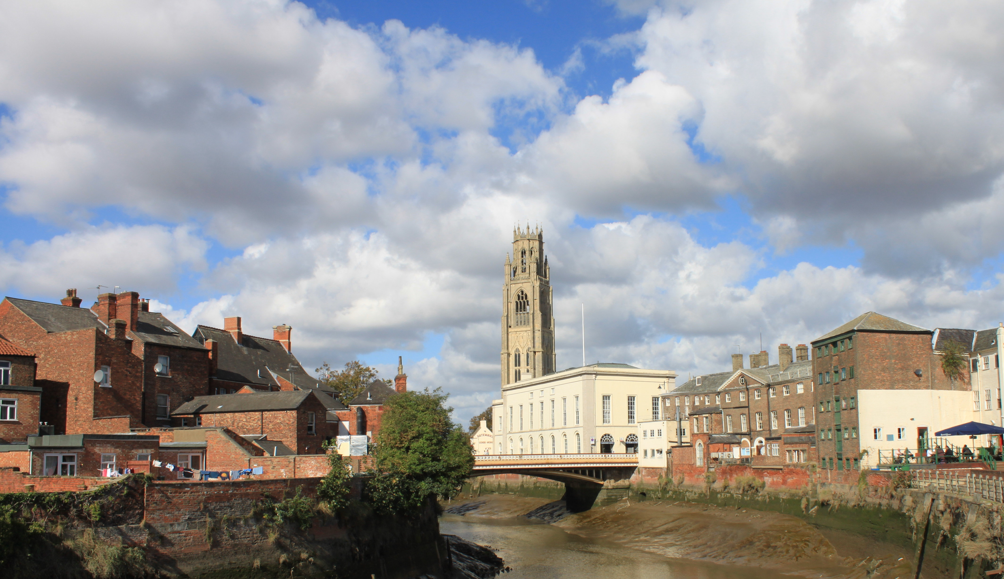 The Stump in Boston, Lincolnshire, with the Haven River at low tide in the foreground - and the clouds!.